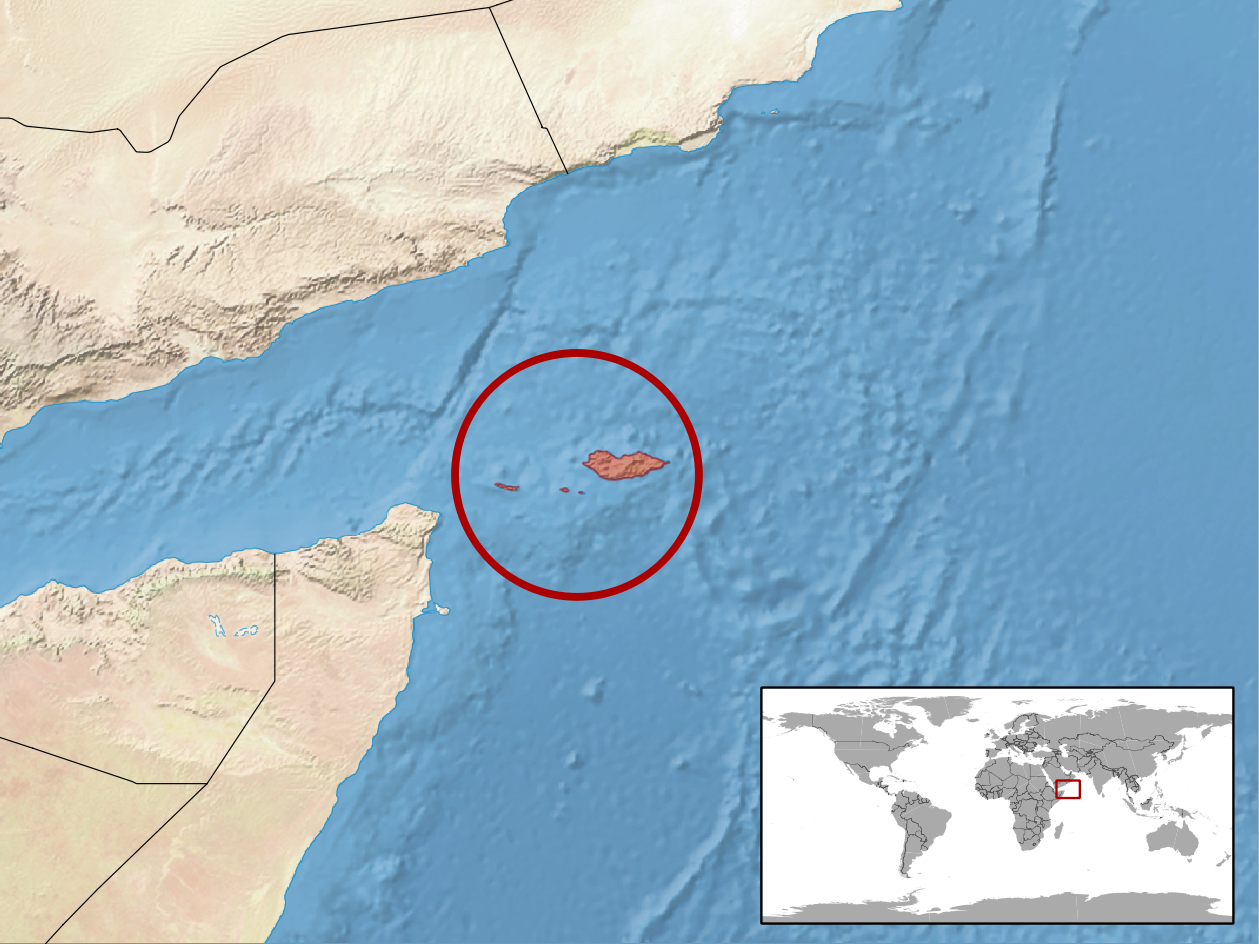 geographic distribution of Trachylepis socotrana